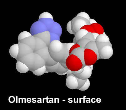 Created by Osni Moreira Filho on March 20, 2006.